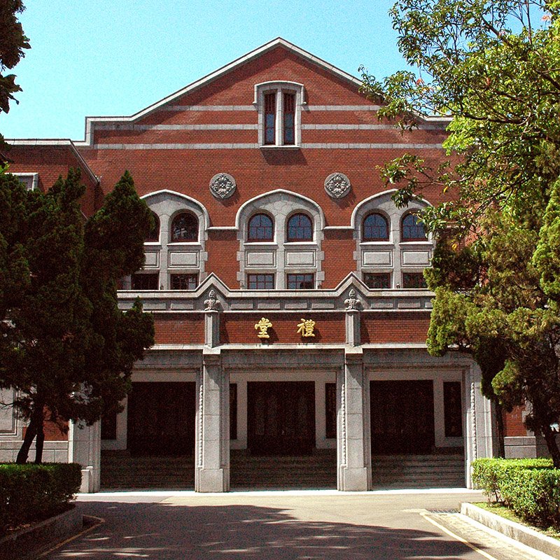 National Taiwan Normal University - Auditorium. (Photo: Alton Thompson)中文（台灣）: 國立臺灣師範大學禮堂。Alton Thompson攝影。